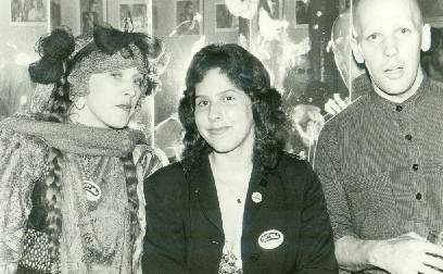 Lene Lovich, Ruth Polsky and Les Chappell, 1978(?) author: Nigel Dick